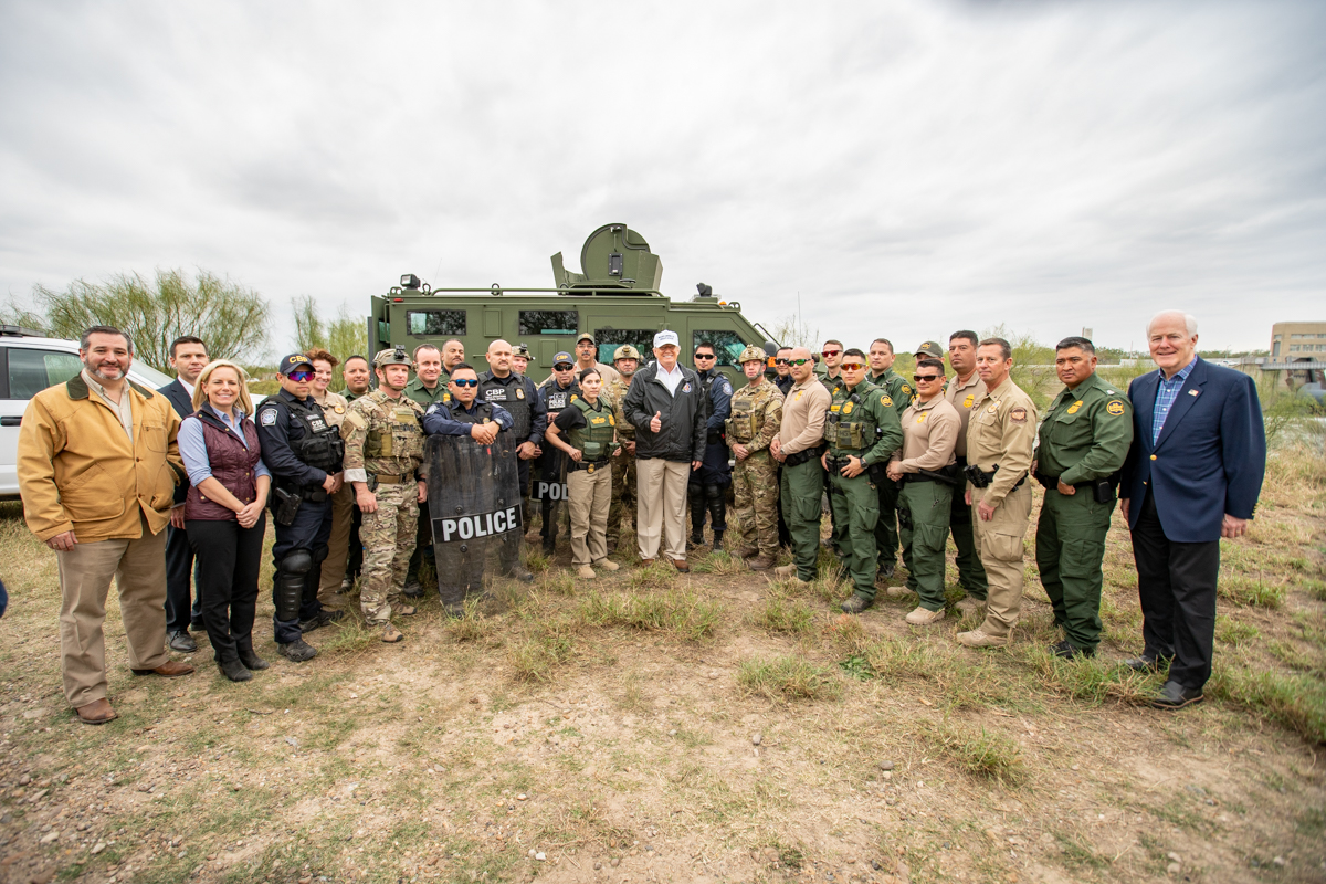 President Donald J. Trump poses for a photo with U.S. Customs and Border Protection officers, legislators, and Department of Homeland Security Secretary Kirstjen Nielsen at an overlook along the Rio Grande following a briefing on Immigration and Border Security Thursday, January 10, 2019, near the U.S. Border Patrol McAllen Station in McAllen, Texas. (Official White House Photo by Shealah Craighead)